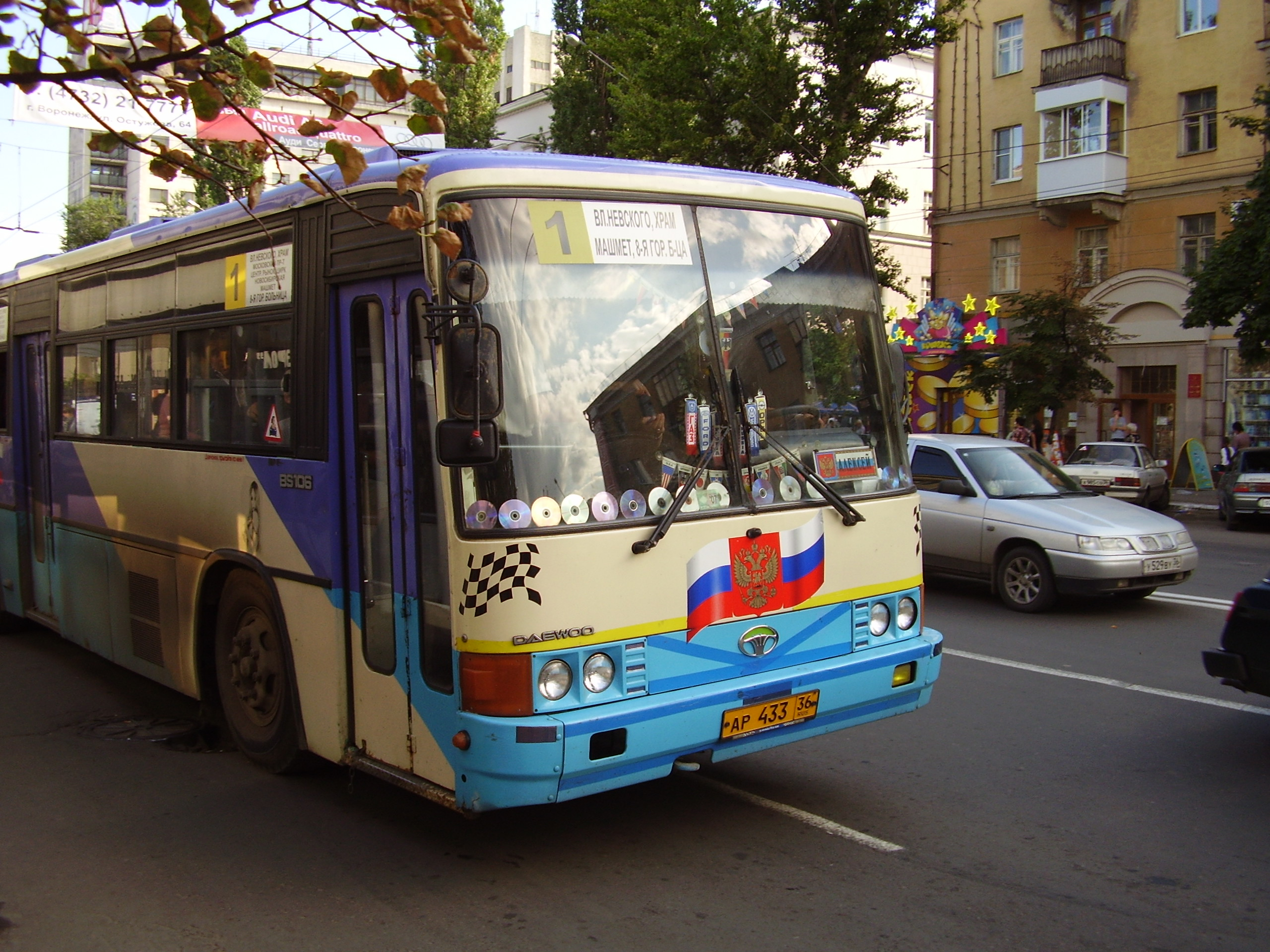 Bus Daewoo in Voronezh.